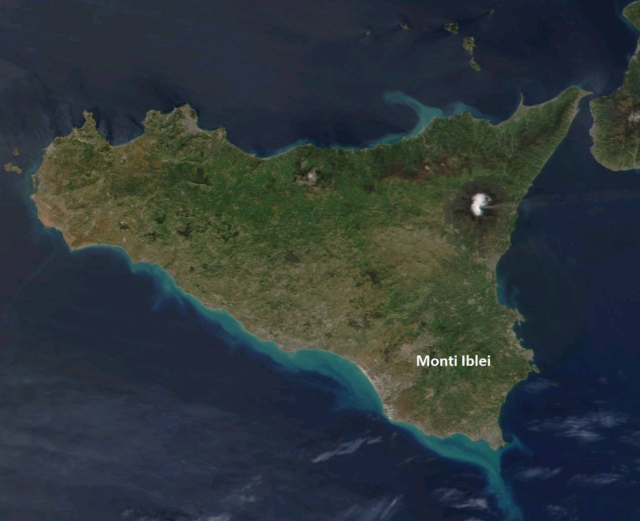 This true-color scene of a smoke plume streaming eastward from snow-capped Mount Etna was acquired on April 7, 2002, by the Moderate-resolution Imaging Spectroradiometer (MODIS), aboard NASA's Terra satellite. Mount Etna, towering above Catania, Sicily's second largest city, has one of the world's longest documented records of historical volcanism, dating back to 1500 BC. Historical lava flows cover much of the surface of this massive basaltic stratovolcano, the highest and most voluminous in Italy.